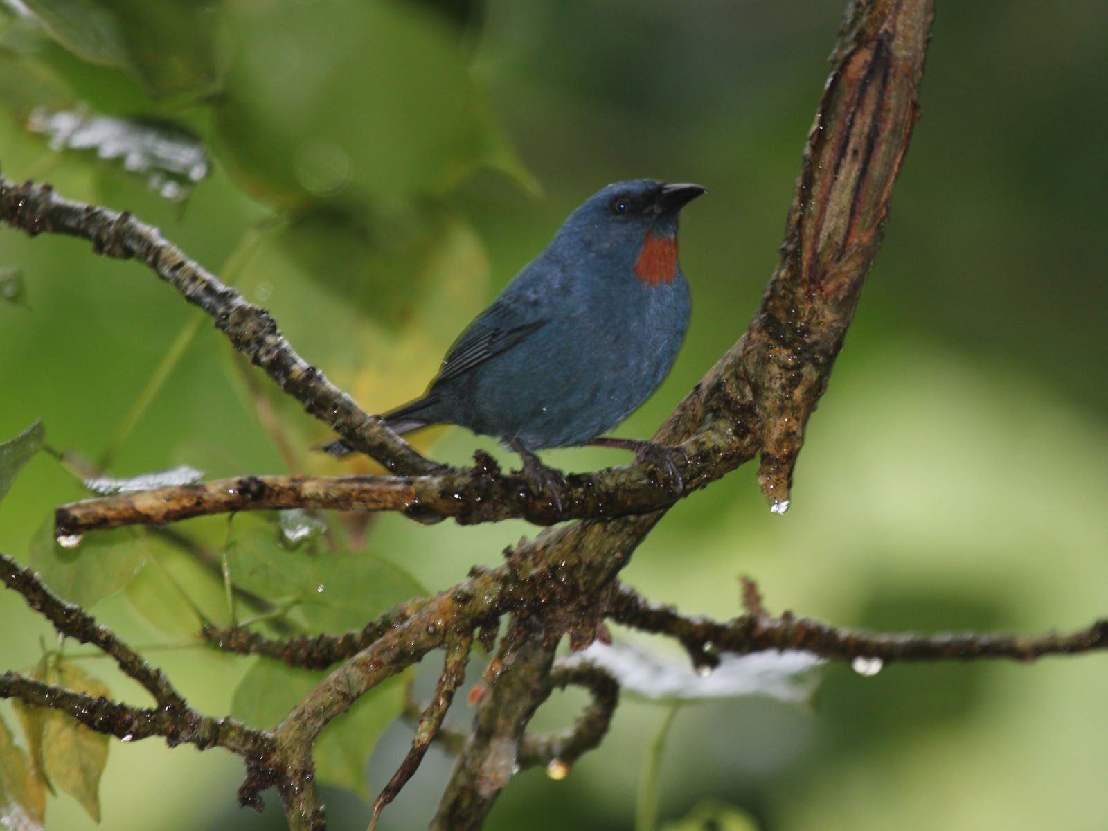 Male Orangequit (Euneornis campestris) - Rockwell Feeding Station, Negril, Jamaica. This photo was taken with a flash and the eye was retouched.